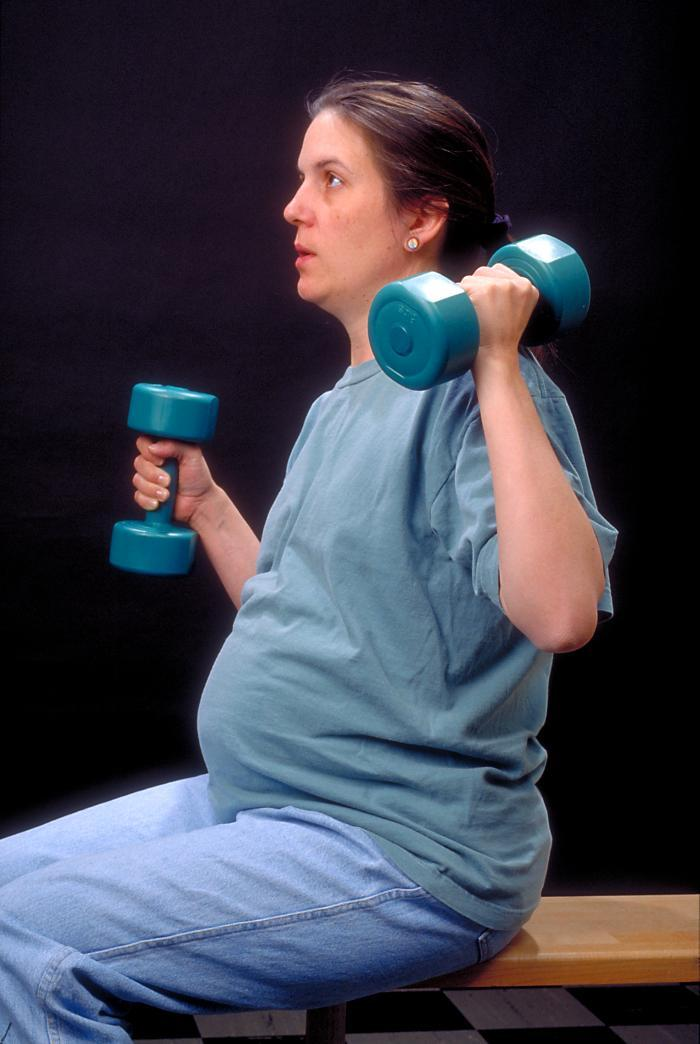 This image is public domain, and comes from: Public Health Image Library (PHIL), Centers for Disease Control and Prevention, 1600 Clifton Rd, Atlanta, GA 30333, USA. Telephone: (404) 639-3311 Public Inquiries: (404) 639-3534 Image Information: PHIL ID: 1086 Title: Exercise in pregnancy. Content Provider(s): CDC/James Gathany Provider Creation Date: 1999 Description: Pregnant woman exercising with light dumbbells. Source Library: PHIL Photo Credit: N/A